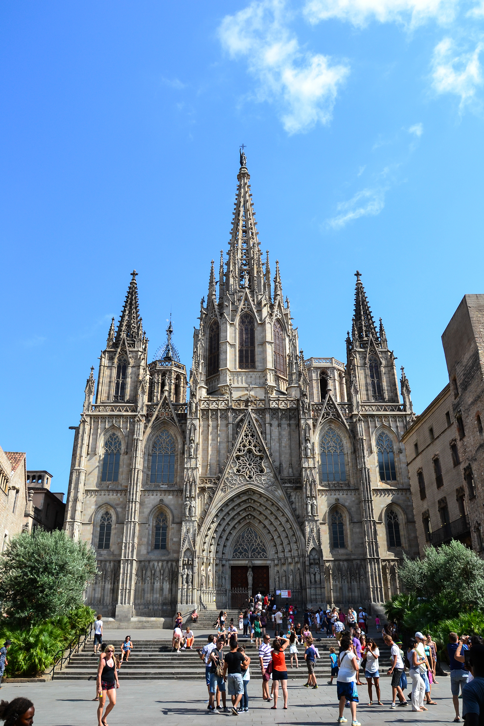 Cathedral of the Holy Cross and Saint Eulalia